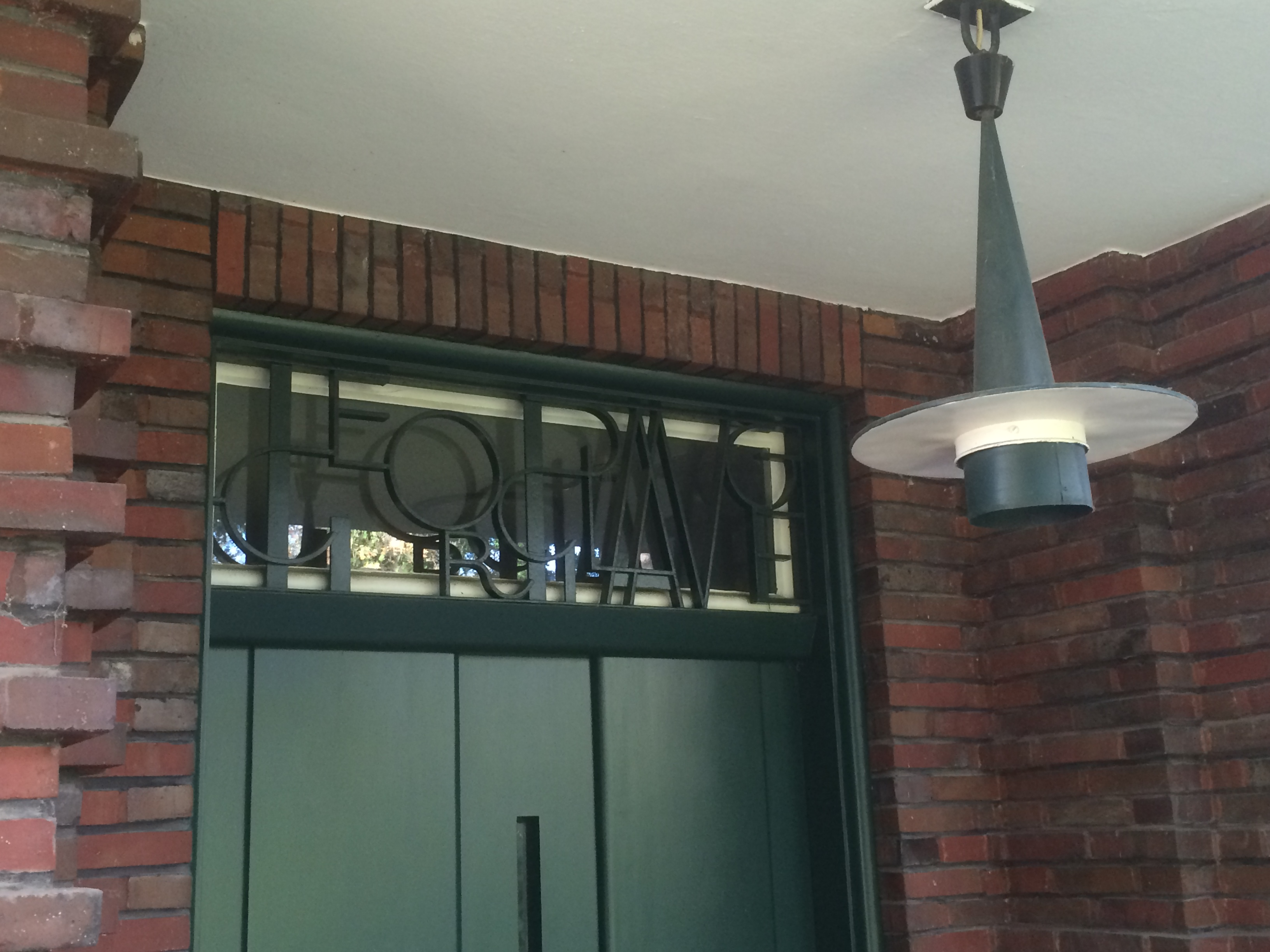 Main Entrance of Plange Mansion in Soest, architect Bruno Paul